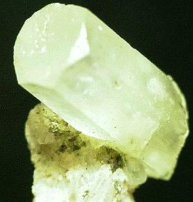 Milarite Locality: Giuv Valley, Tujetsch (Tavetsch), Vorderrhein Valley, Grischun (Grisons; Graubünden), Switzerland (Locality at ) A superb crystal for the species from ANY location but particularly from this classic Alpine locality. The quality of this crystal is very high, and it is more obviously gemmy in person. It measures 1 x 0.5 x 0.5 cm and is perched on a sprig of matrix! Esoteric and "just" a thumbnail, I admit, but an important specimen nonetheless. Interestingly, the "Val Mila" east to the Val Giuf was NOT the first locality for this stuff, though it is sometimes said to be. It is documented that the first findings were from Val Giuf but the finder labelled it Val Mila (to confuse the other Strahlers) , and hence the origin for the name "Milarite". Later Milarite was coincidentally also found in the Val Mila. 1 x 0.7 x 0.5 cm